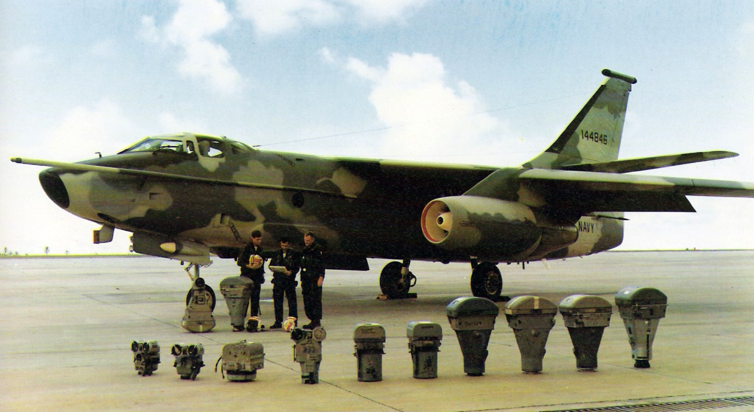 A camouflaged U.S. Navy Douglas RA-3B Skywarrior aircraft of reconnaissance squadron VAP-61 World Recorders (BuNo 144846) at Naval Air Station (NAS) Agana, Guam. Standing beside it are PH1c R. Laurie, LTJG D. Schwikert and LCDR Chas. D. Litford. On the ground in front of them are twelve cameras. VAP-61 was performed reconnaissance missions over Vietnam until it was disestablished on 1 July 1971. 144846 became an ERA-3B in 1982. It was later sold to Hughes Aircraft, inherited by Raytheon, (civil registration N547HA) and finally srcapped in 1999.